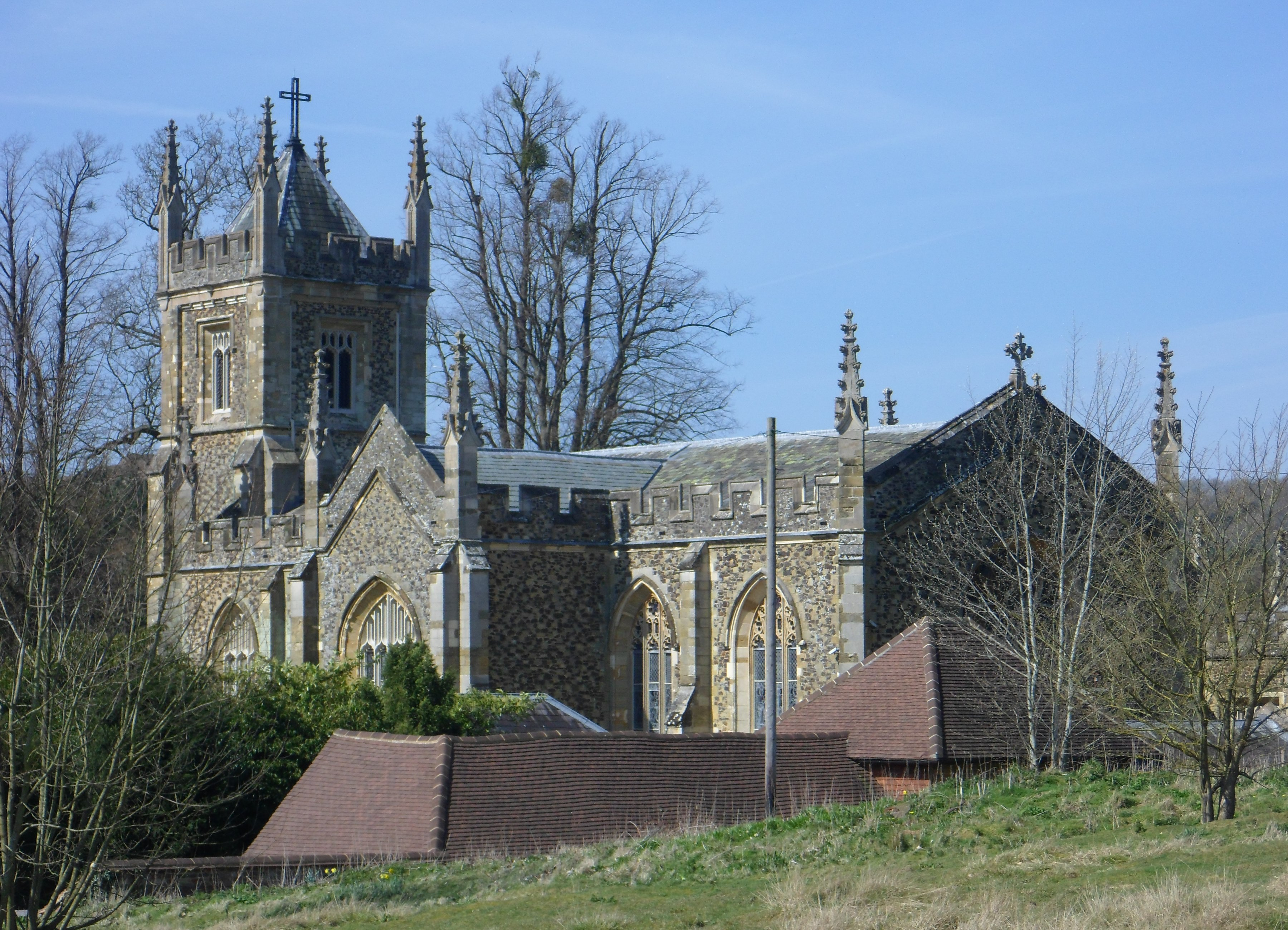 Former Catholic Apostolic Church, Albury Park, Albury, Borough of Guildford, Surrey, England. Designed in 1840 by William McIntosh Brooks for Henry Drummond of Albury Park.